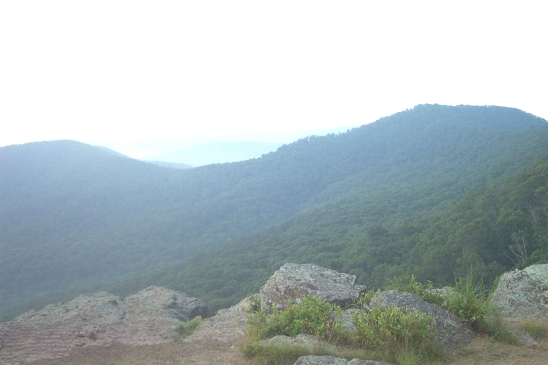 White Rock Mountain in the Boston Mountains region of the Arkansas Ozarks. Charles Smith 2003